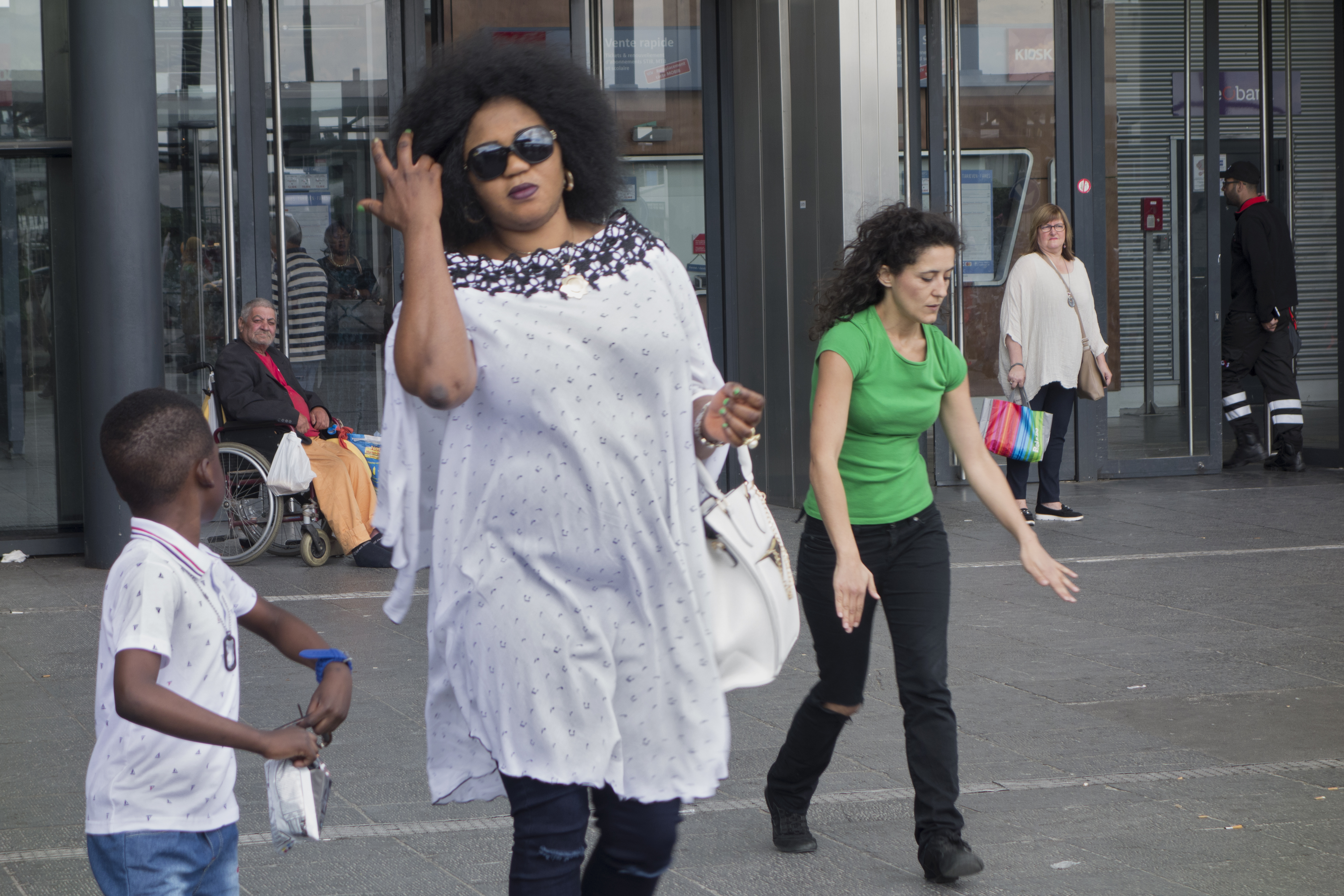 Performance of 'Visions of Miles' within the framework of the project 'In Search of Akarova' at Weststation / Gare de l'Ouest, Sint-Jans-Molenbeek / Molenbeek-Saint-Jean. Choreographers: Johanne Saunier, Ine Claes. Music: Miles Davis. Performer: Ine Claes.